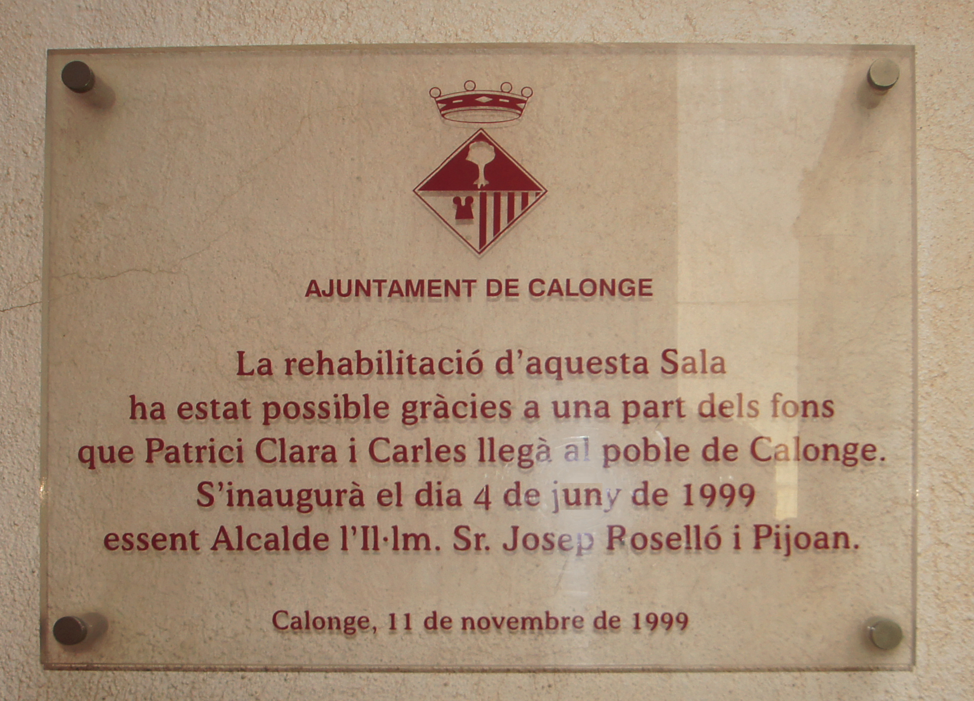 Calonge, Catalonia: Plaque about the renovation of the Sala Fontova on the 4th of june 1999